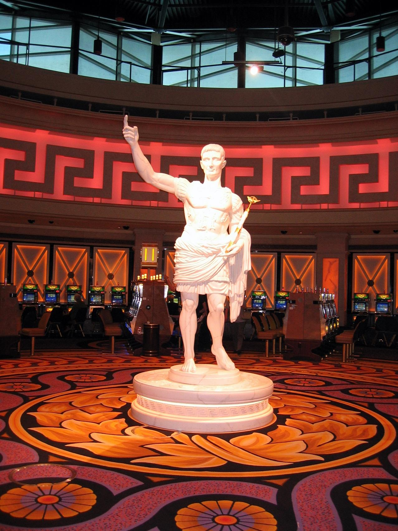 Statue of Caesar in the Caesars Windsor casino in Canada